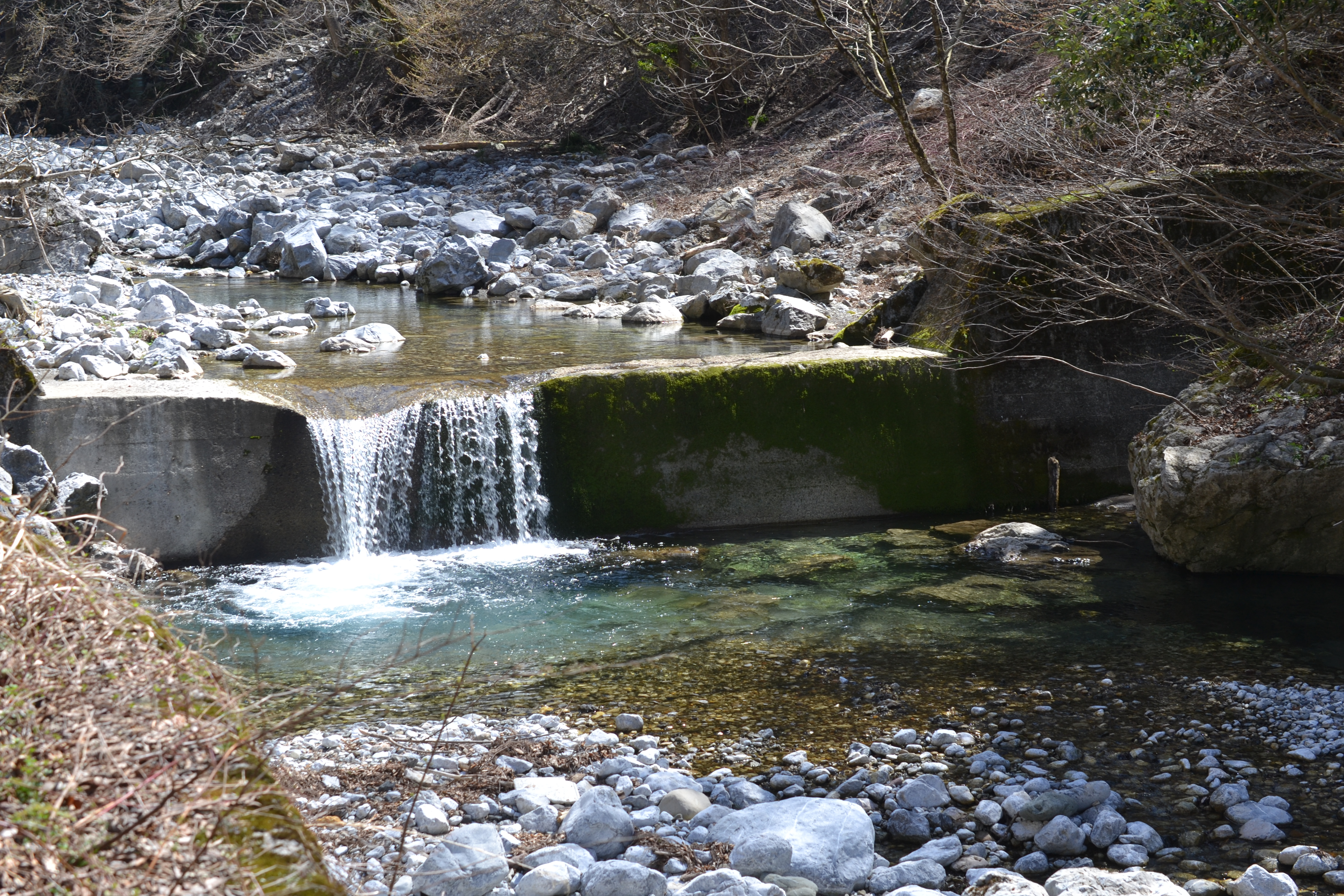 erosion-control dam (Check dam) in Seri River(Serigawa river), Taga Town, Shiga Prefecture.